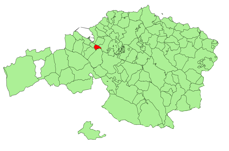 Map of Sestao